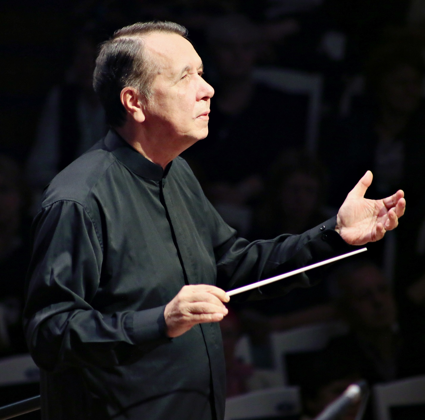 Russian pianist, conductor and composer Mikhail Pletnev.